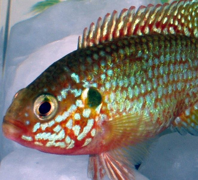 Hemichromis bimaculatus